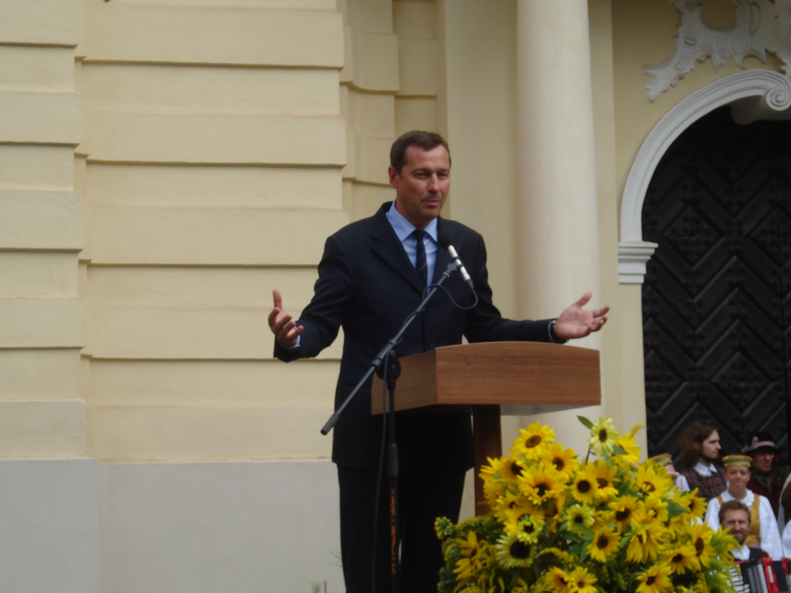 Artūras Zuokas at Initio Semestri in Vilnius UniversityLietuvių: Vilniaus meras Artūras Zuokas mokslo metų pradžios šventėje Vilniaus universitete 2011 rugsėjo 1 d.